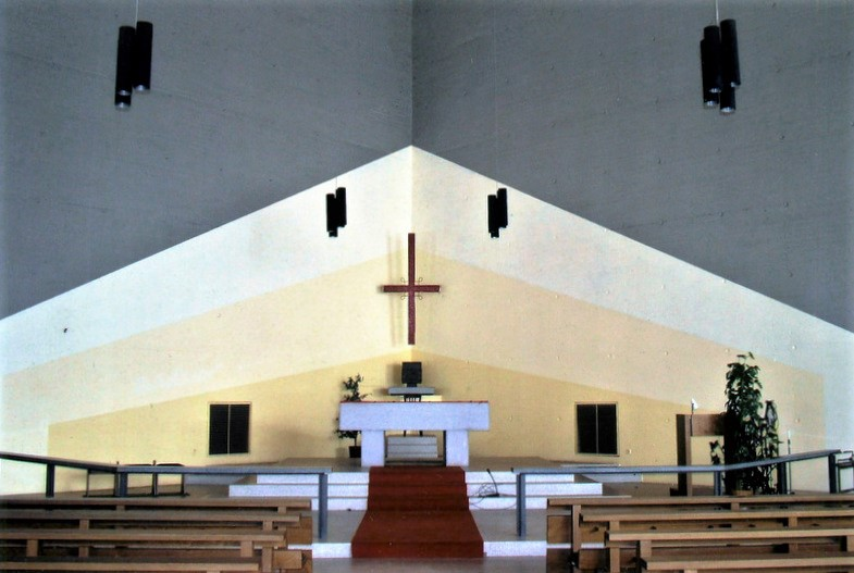 Former church of St. Josef in Mettlach-Keuchingen